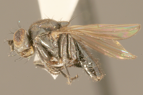 Helaeomyia petrolei imago from the Coal Oil Point Reserve near Santa Barbara, California.